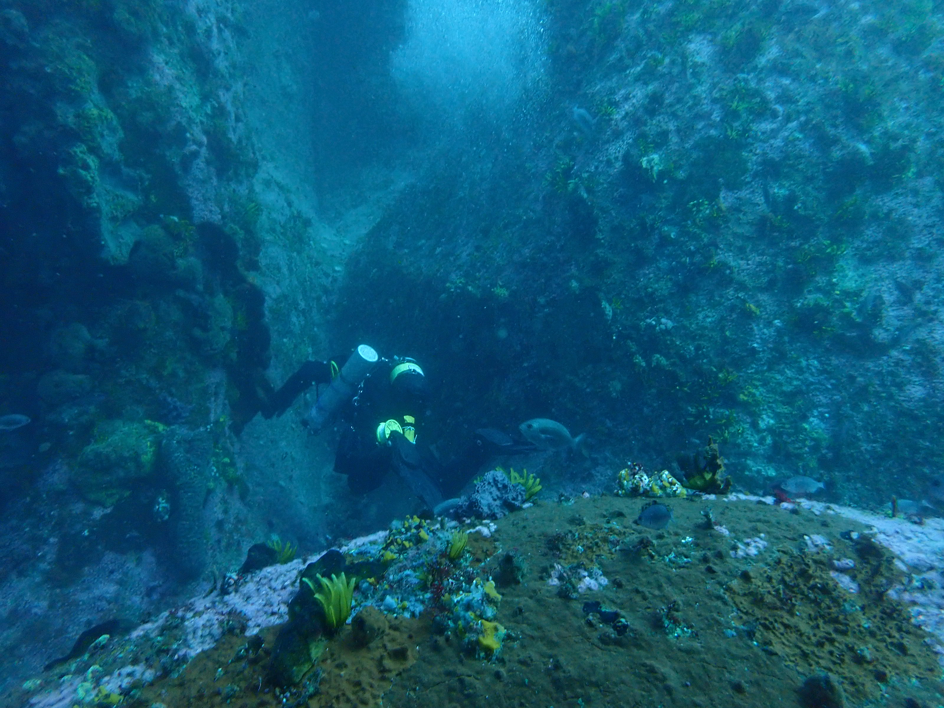 Diver swimming through the gully east of the Bus Stop overhang at M&M Tower reef at Whittle Rock, False Bay, South Africa